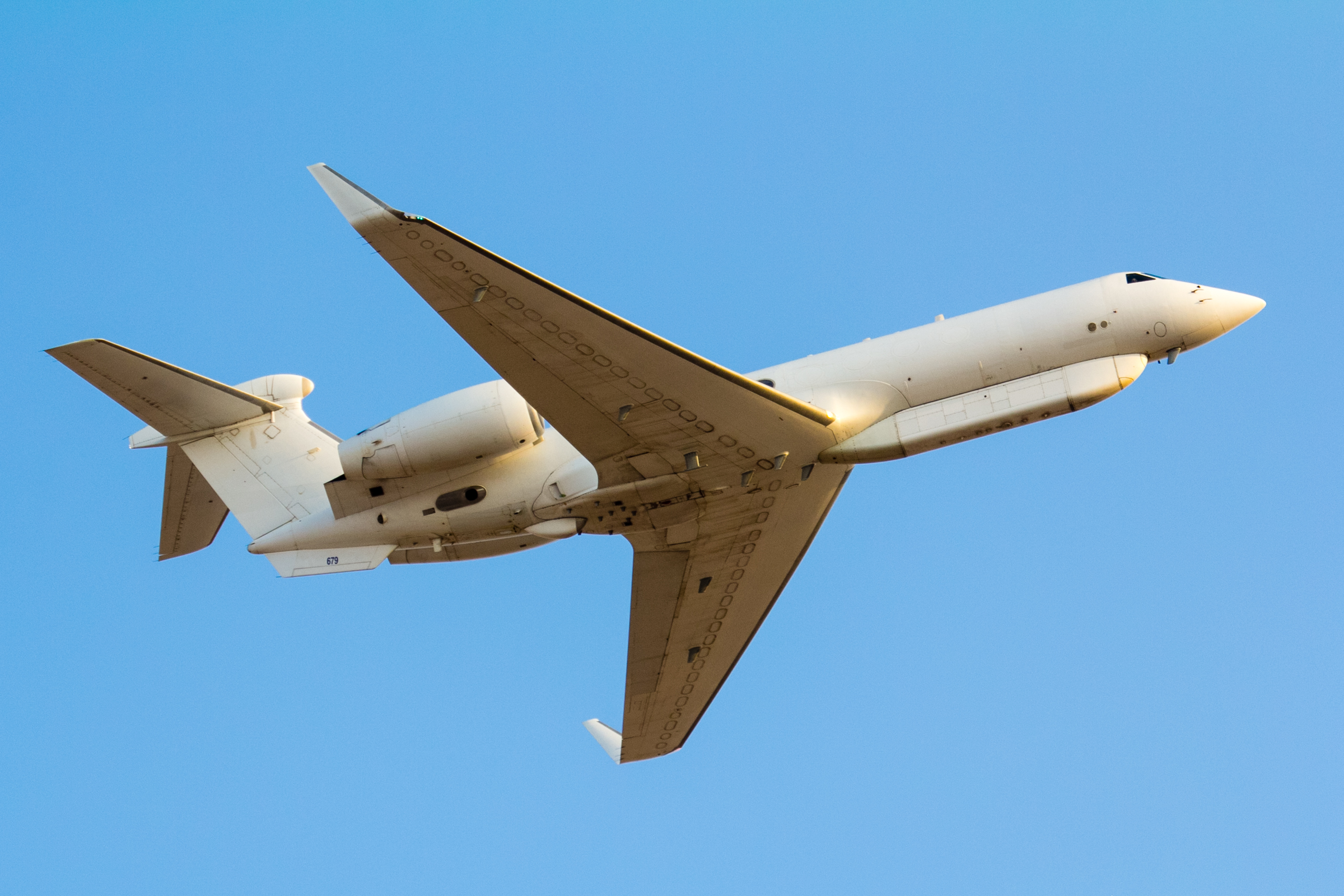 Israeli Air Force 122 Squadron Nachshon Shavit (Gulfstream G500 SEMA)